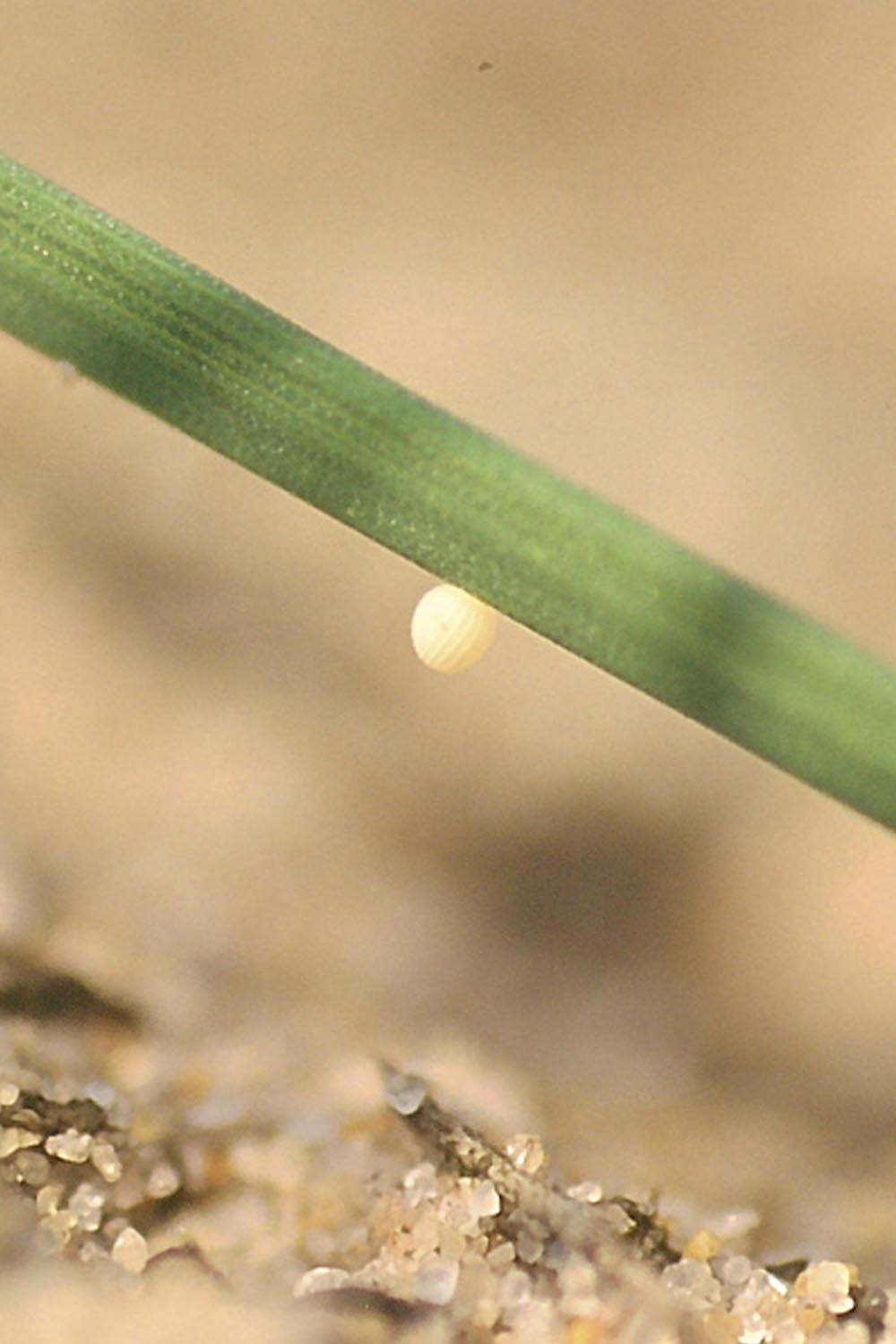 Grayling (Hipparchia semele) egg